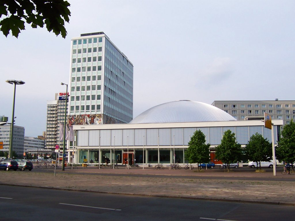 Berliner Congress Center (BCC) and Haus des Lehrers